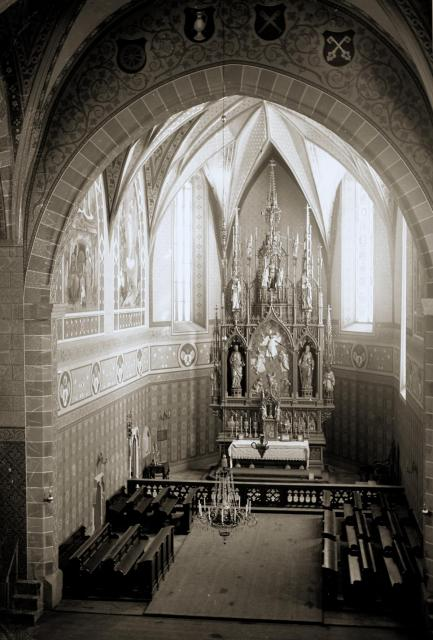 Main Church in Tábor (Děkanský kostel) after reconstruction by architect Josef Mocker who replaced Rococo altair by pseudo-gothic one. Photographed by Ignác Šechtl and Josef Jindřich Šechtl. before reconstruction